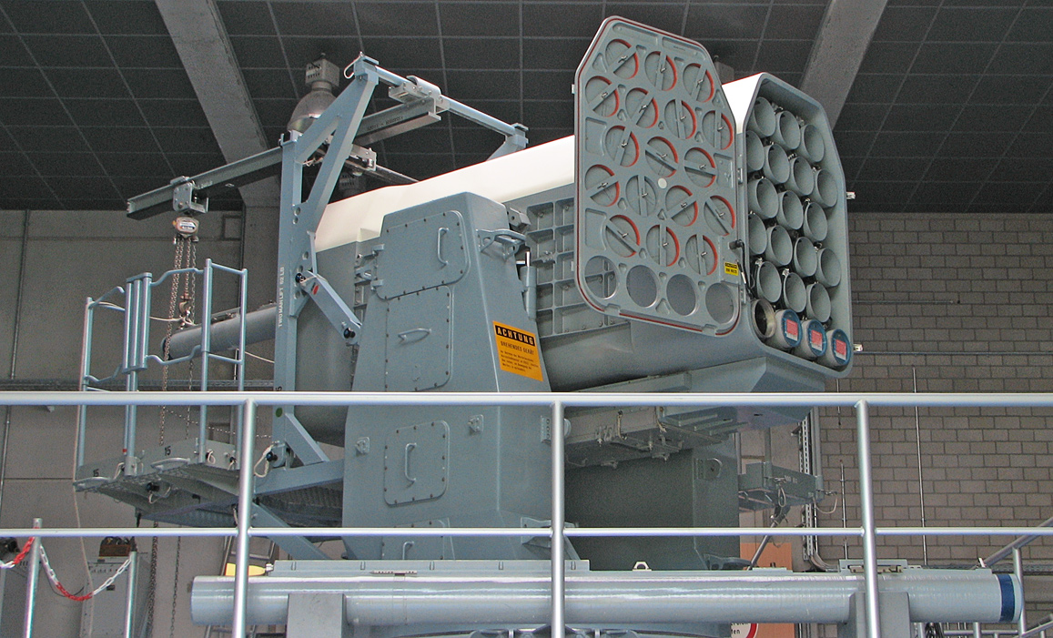 Description/Beschreibung: RIM-116 Rolling Airframe Missile Launcher in a Practice facility Author/Fotograf: Darkone, 17. Juni 2006